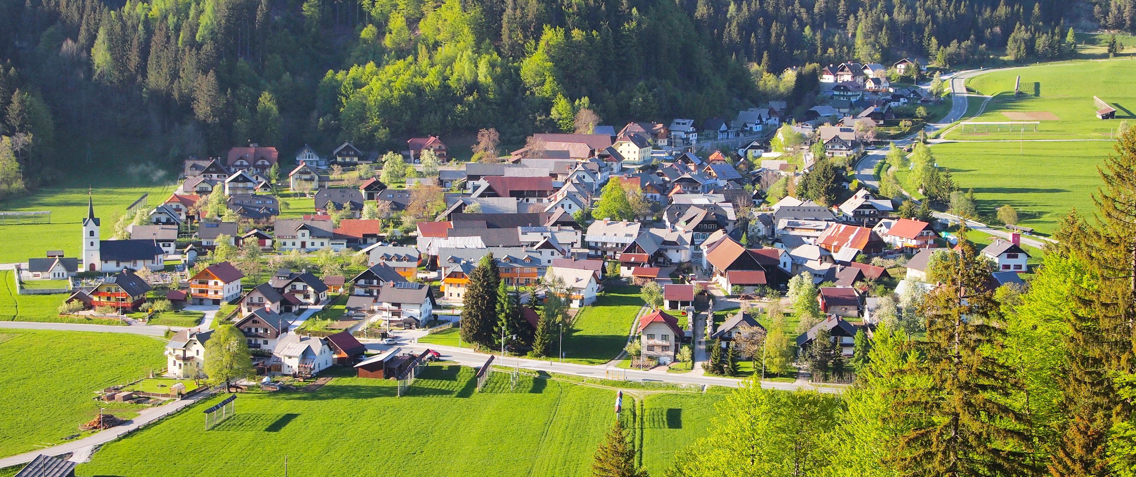 The village Podkoren in Slovenia. This photograph was taken with an Olympus E-PL1